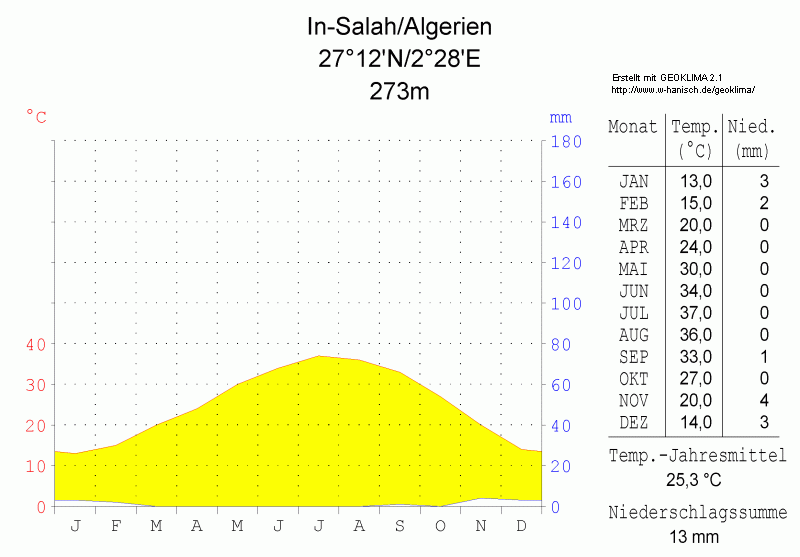 climate chart in the format by Walther and Lieth Climat désertique de type chaud, à In-Salah, sahara algérien